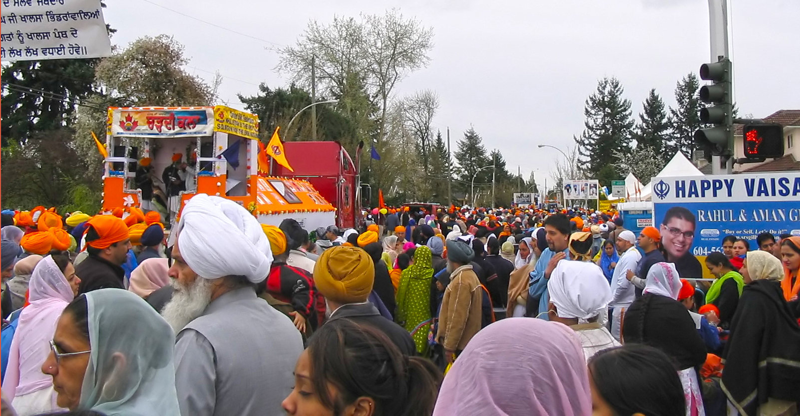 Vaisakhi parade in Surrey, BC, Canada